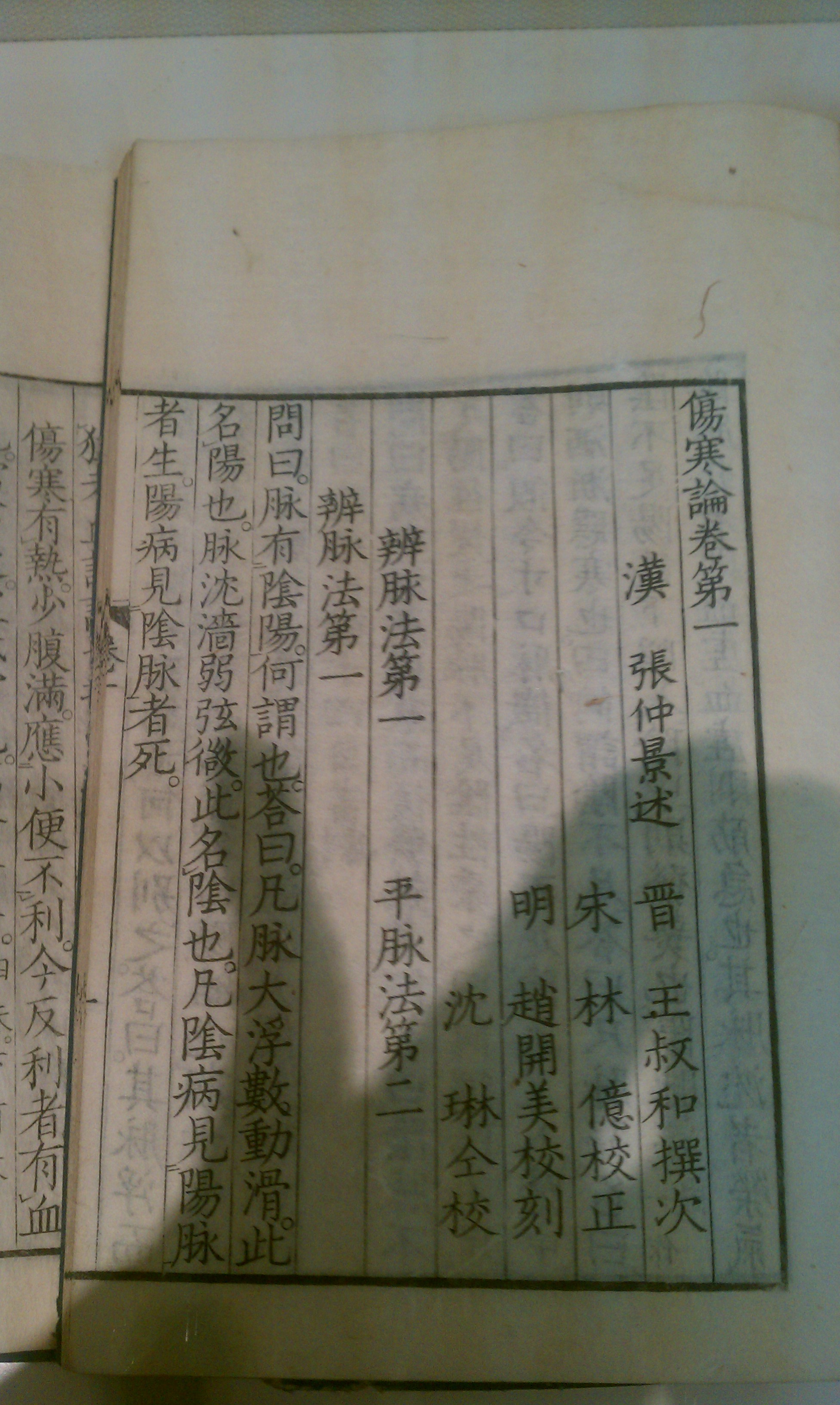 chinese-medicine-book「syoukanron」 A.D.500